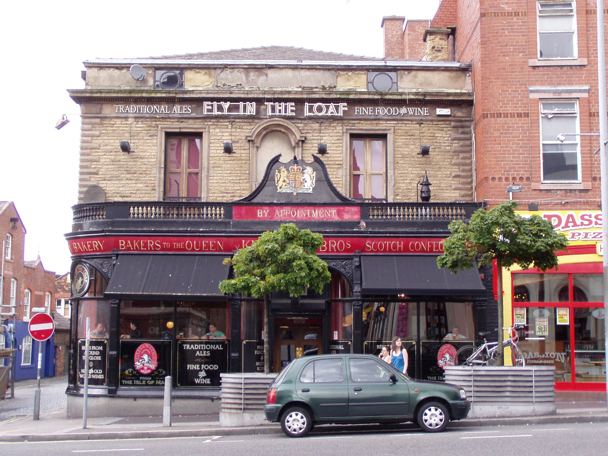 Fly in The Loaf pub, Liverpool